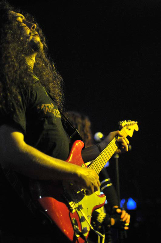 Pier Gonella playing live